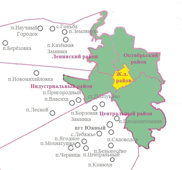 Районы Барнаула с подчинёнными населёнными пунктами (образующими городской округ)